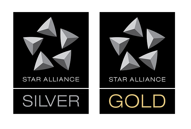 The two uniformly recognised Star Alliance Silver and Gold logo side-by-side